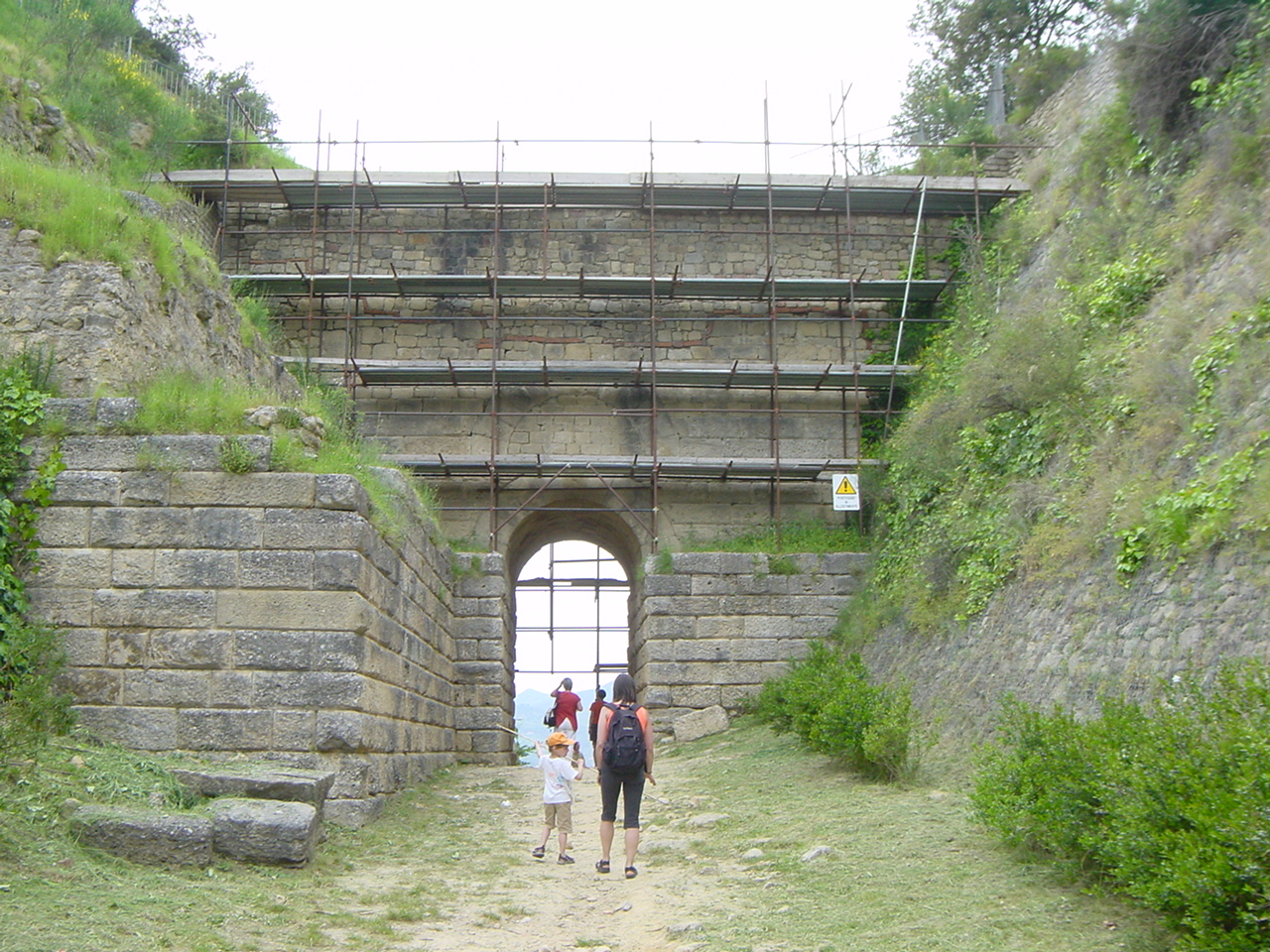 The so called "Porta Rosa" (Pink Gate) in Elea (Campania): made of sandstone bricks, it's a rare exemplar of Greek arch dating back to IVth cenury BC. Actually, the arch is not a gate, as Italian name would suggest, but a viaduct, no traces of carving or hinges having being found in the stone. Passing trough the arch, there is the main road of Velia, which connects the southern quarter with the northern quarter.